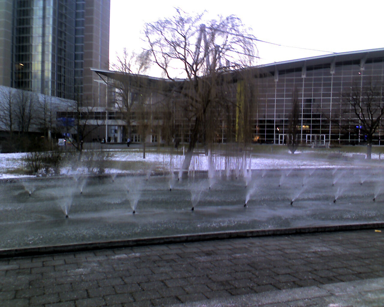 Hanover fairground, View to Hall 3